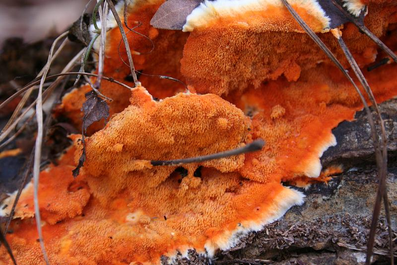 The fungus Phanerochaete chrysorhizon. Specimen photographed in Skidaway Island State Park, Chatham Co., Savannah, Georgia. "Notes: found growing on underside of rotting log"